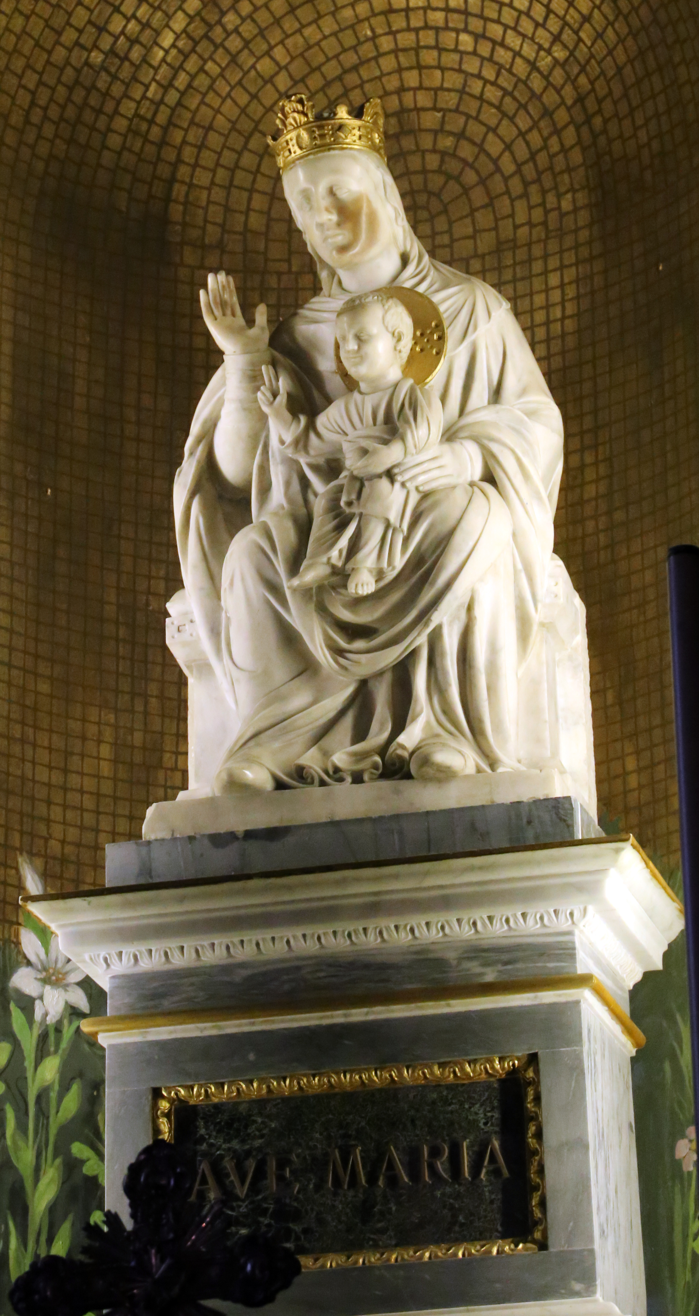 Duomo (Vercelli)